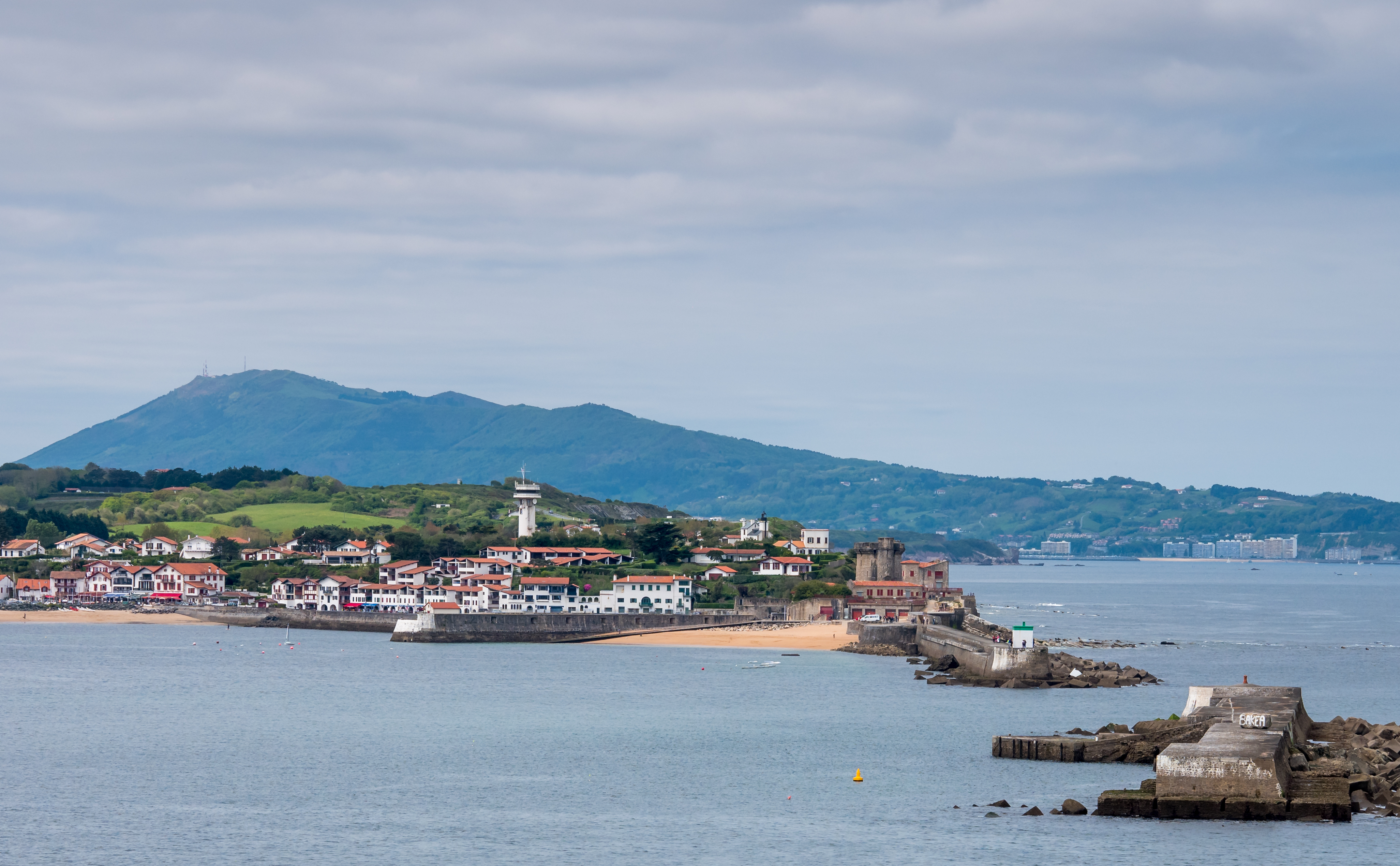 Sokoa viewed from the Pointe de Sainte Barbe. Saint-Jean-de-Luz, Basque Country, France